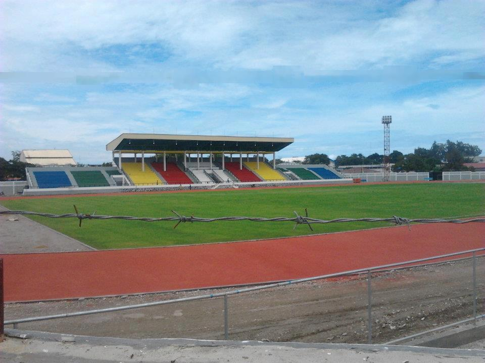 This is the photo of new Timor Leste Stadium. It's have renoved and expanded.